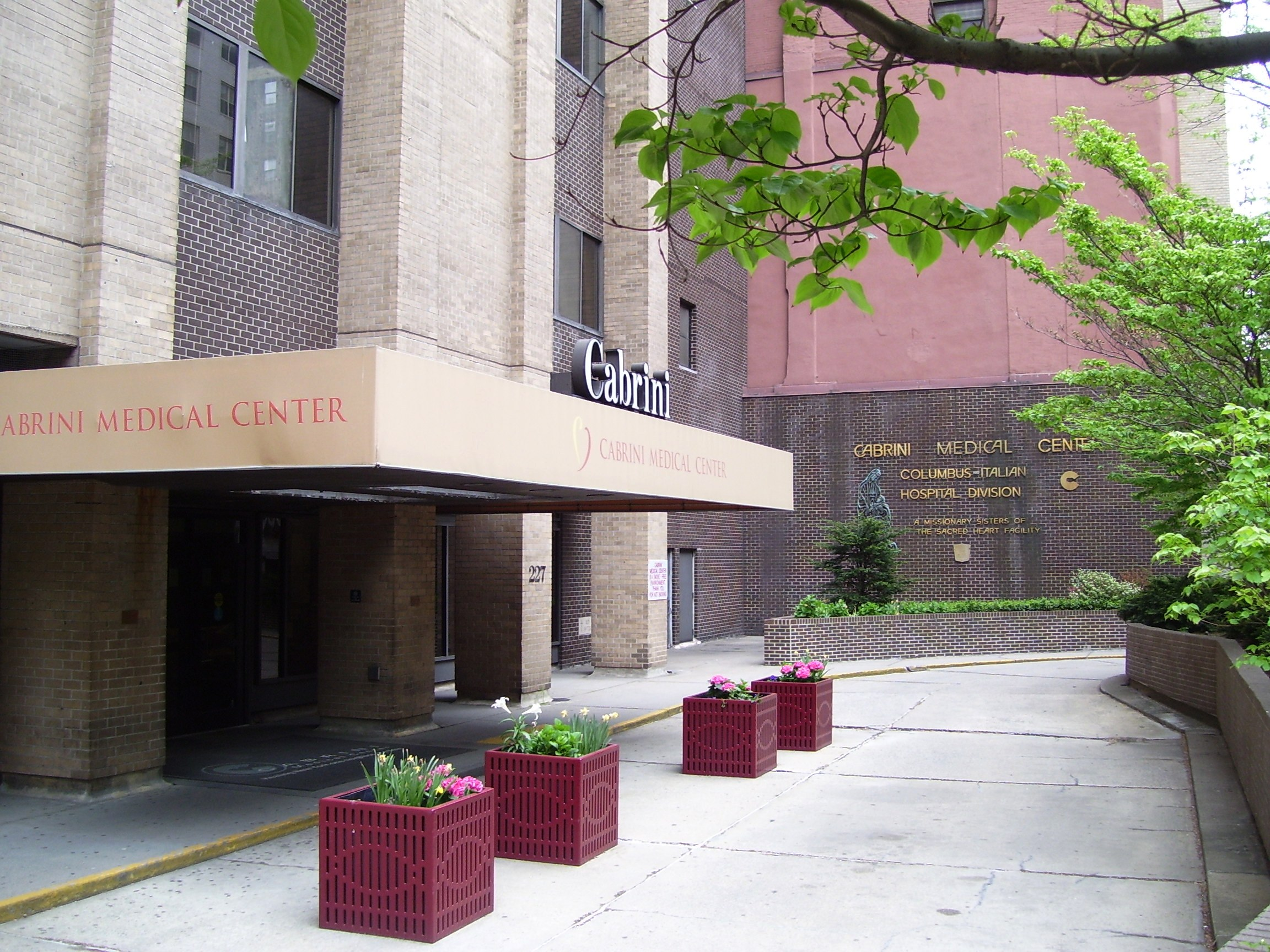 Cabrini Medical Center, on East 20th Street, in Manhattan, New York City, closed in 2008. The buildings were bought by Memorial Sloan-Kettering Cancer Center in January 2010.